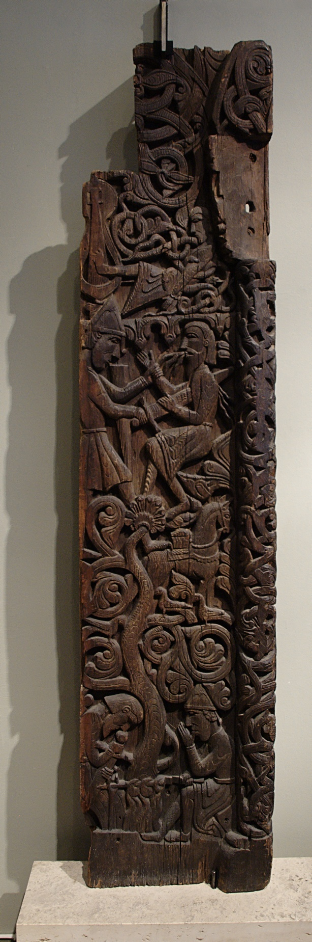 The left portal plank from Hylestad stave church, the so called "Hylestad I"